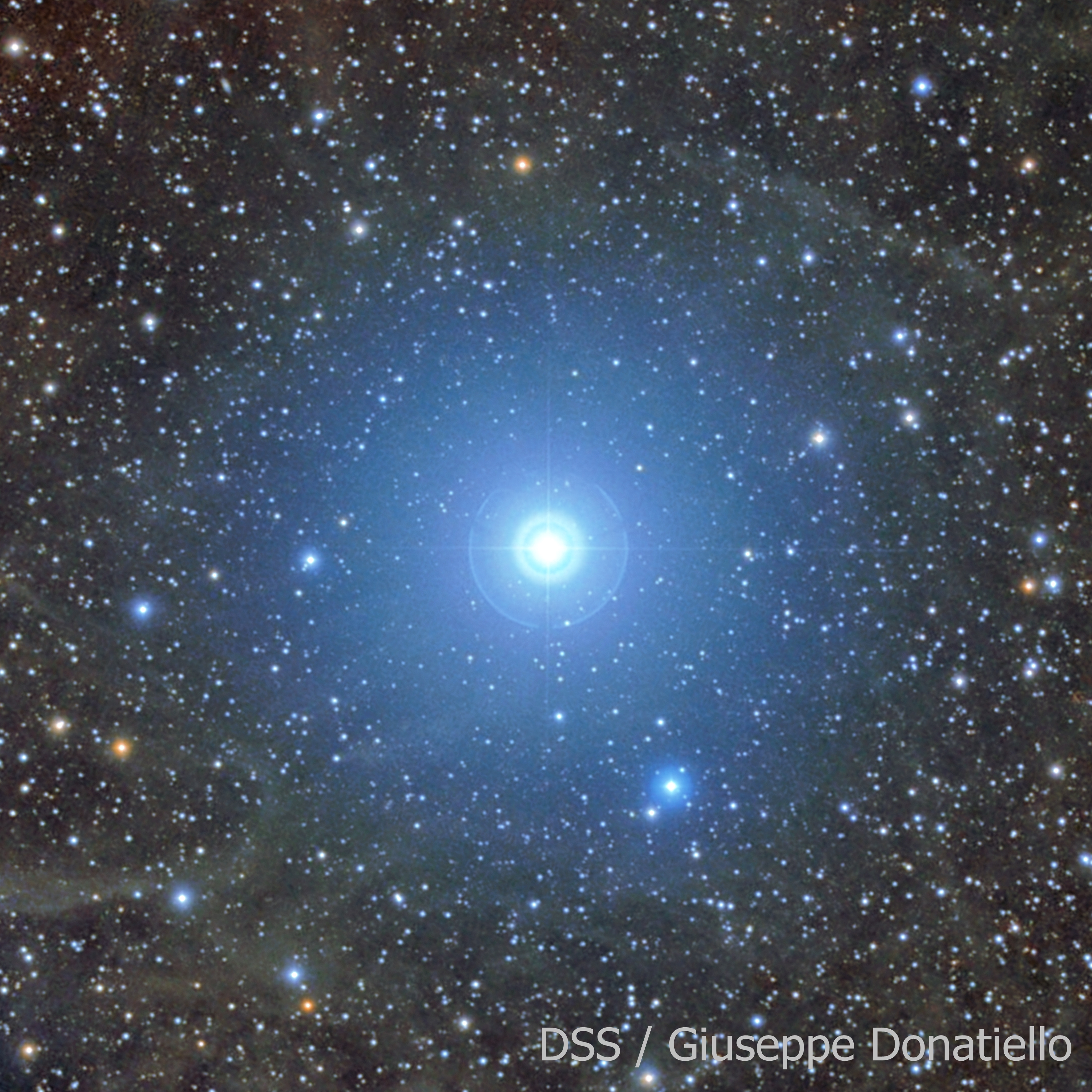 Polaris star Credit: DSS / Giuseppe Donatiello (J2000) RA 02h 31m 48.7s Dec +89° 15′ 51″ Mag(v) = 1.98v Polaris (α Ursae Minoris), the Pole Star, is the brightest star in Ursa Minor, so called because it is very close to the North Celestial Pole. It is a multiple star with five components: α UMi Aa a supergiant with two smaller companions α UMi B and α UMi Ab. In the stellar system are present other two distant components, α UMi C and α UMi D. Polaris A is a low amplitude classical Cepheid variable.